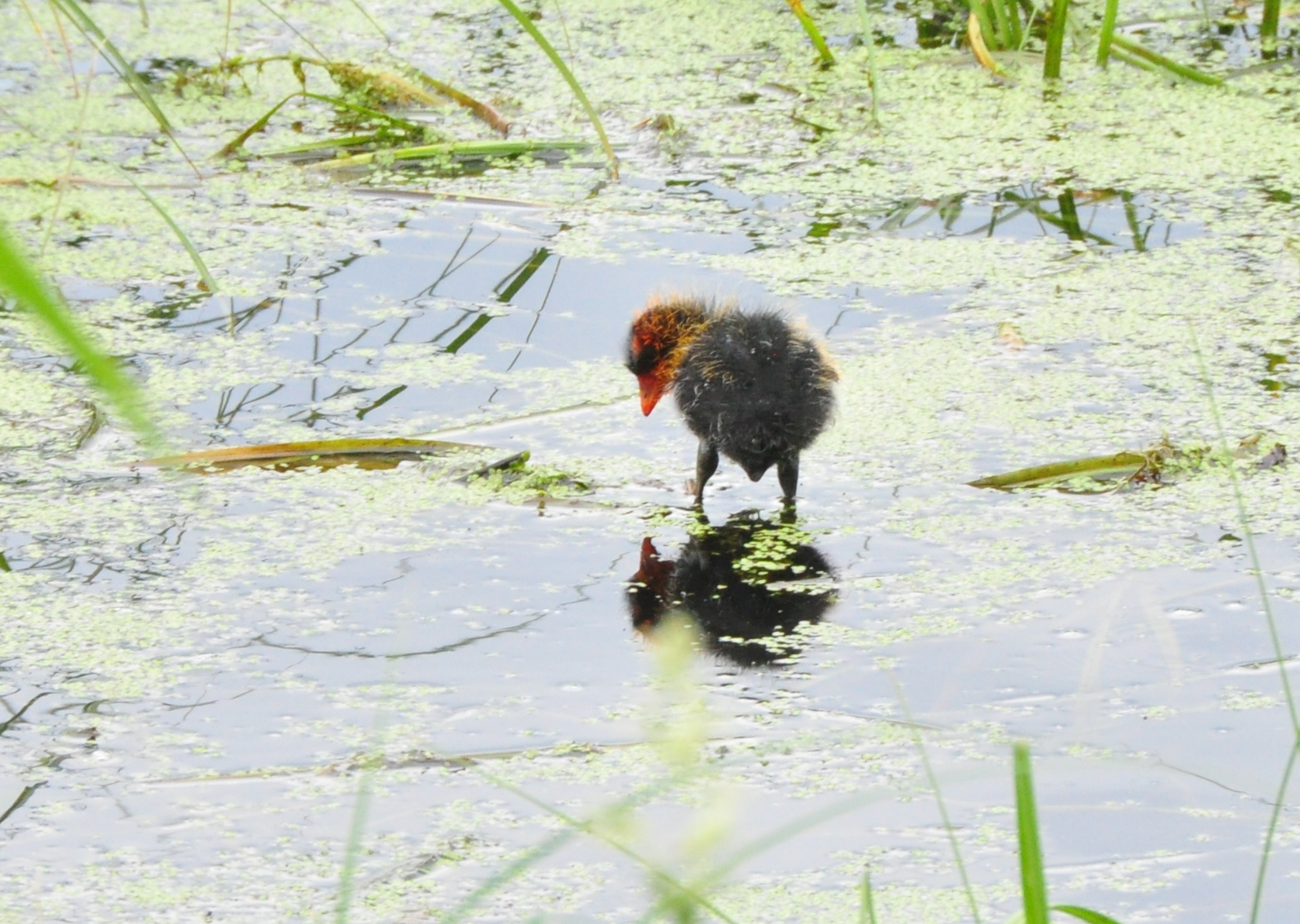 American coot (Fulica americana) immature in Ukrainian Cultural Heritage Village, Edmonton